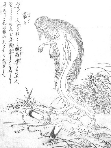 Buruburu (震々, a spirit that causes the shivers) from the Konjaku Gazu Zoku Hyakki (今昔画図続百鬼)